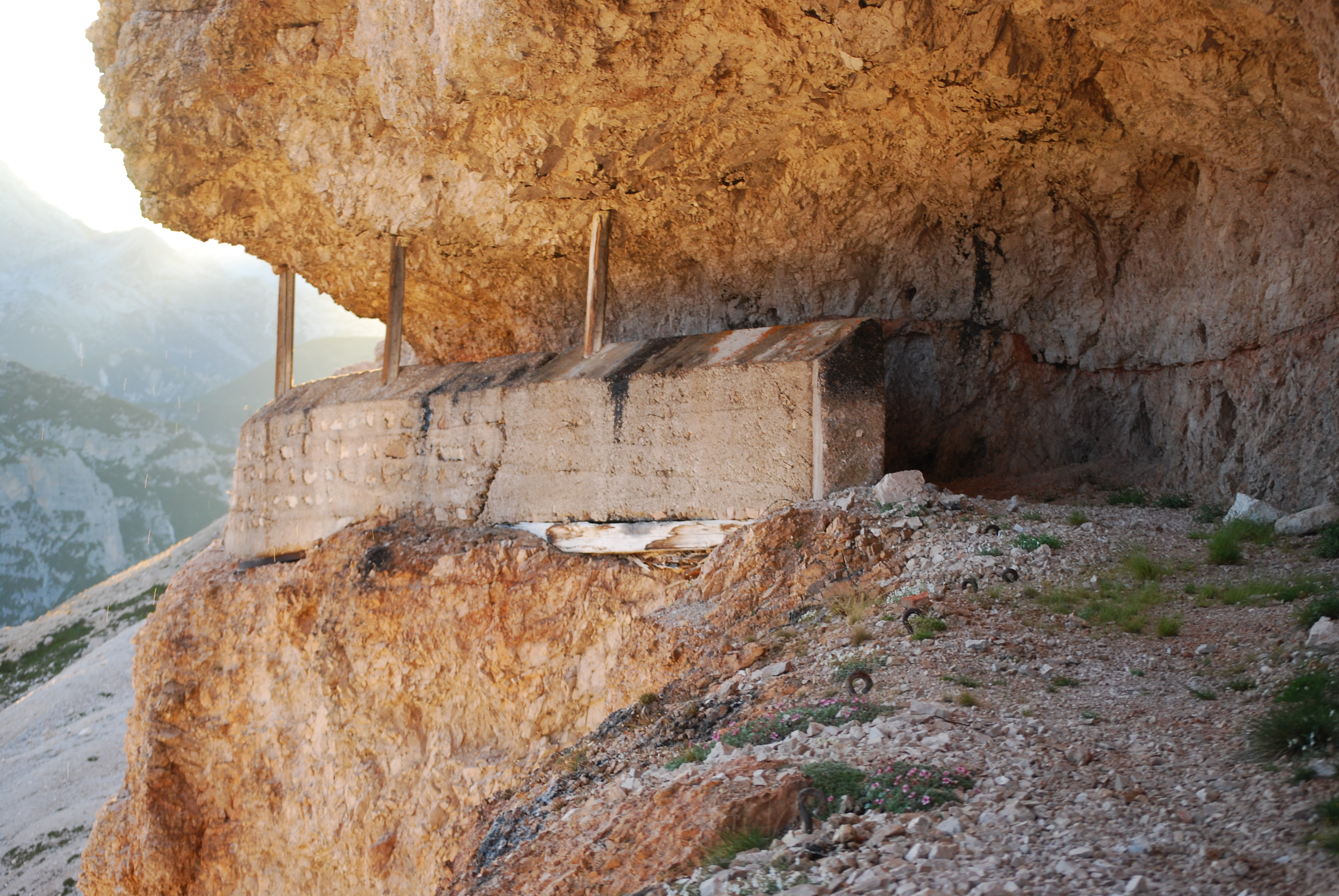 Remains of buildings from WW1 near Rifugio Auronzo